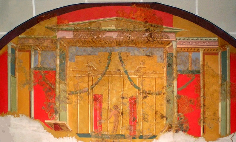 Roman wall painting, found at Southwark, London, Museum of London